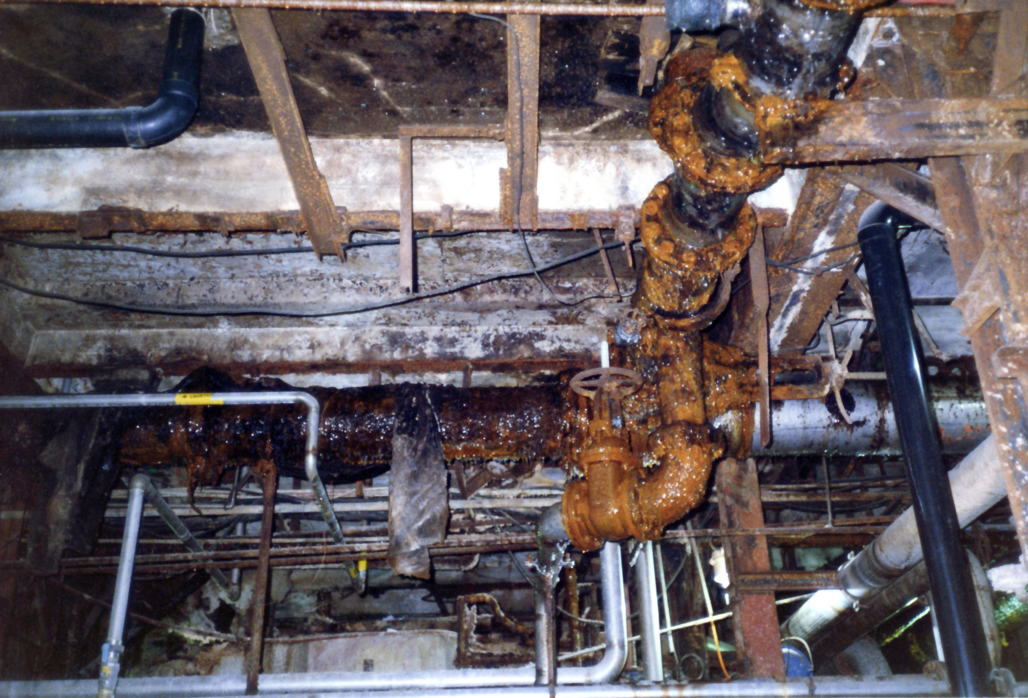 Pulp and paper mill basement, 1980's Sault Ste. Marie, Ontario, Canada. The manufacture of paper necessitates the generation of lots of humidity, which can result in housekeeping and corrosion challenges. Notice the ABS plastic pipes right inside the noncombustible building as per Part 3 of the Ontario Building Code. original description: “Pulp and paper mill, below a paper machine, in the basement. Lots of airborne humidity presents a housekeeping and corrosion prevention challenge. Sault Ste. Marie, Ontario, Canada, 1980's.”